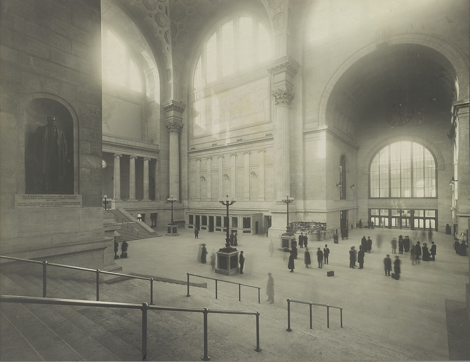 Passengers in the waiting room at Pennsylvania Station, New York, New York, with statue of Alexander Johnston Cassatt, president of the Pennsylvania Railroad Company, in niche on the wall